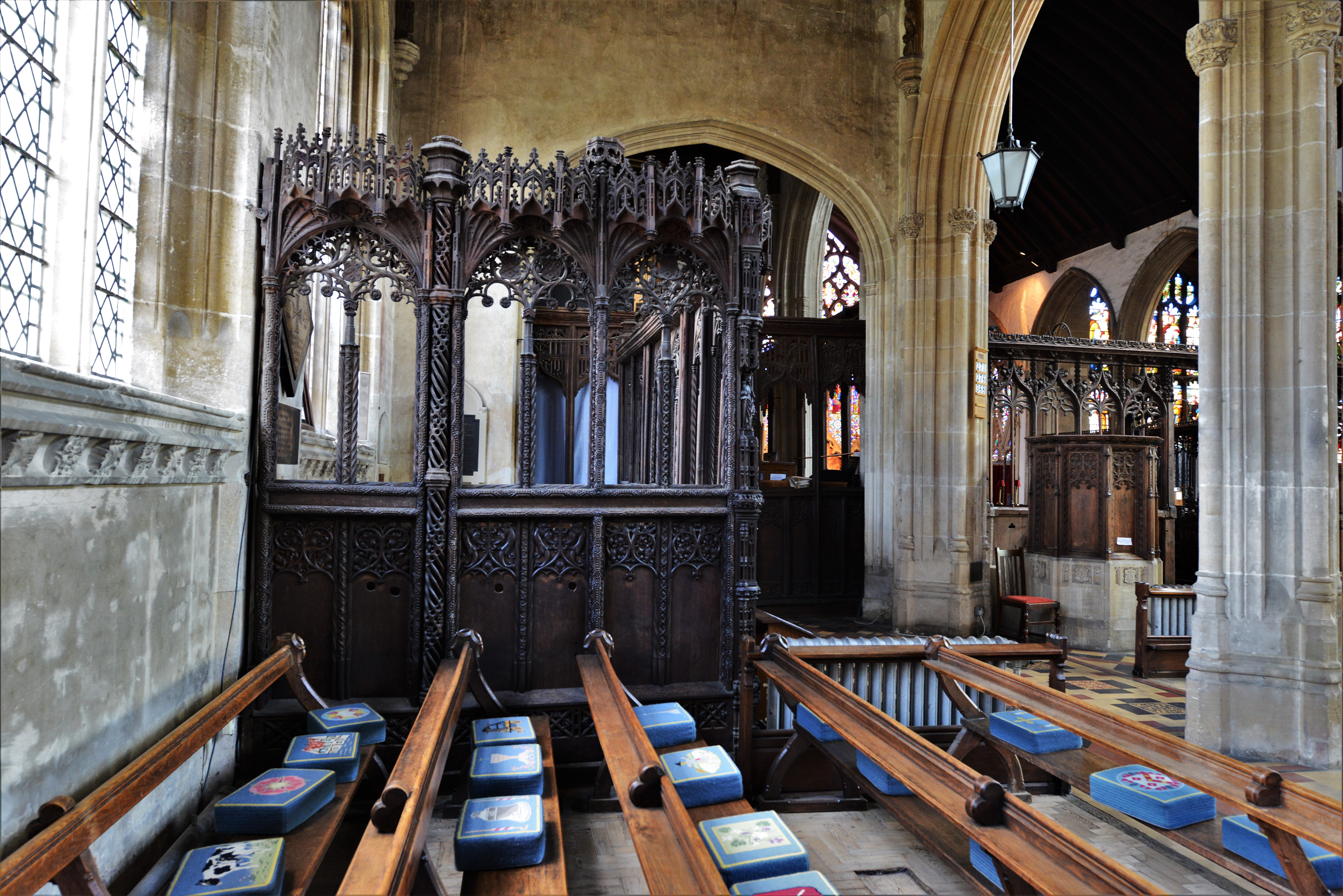 Parclose screen in Church of Saint Peter and Saint Paul, Lavenham, Suffolk, erected as requested in the will of Thomas Spring (c. 1474 – 1523), (alias Thomas Spring III or The Rich Clothier).